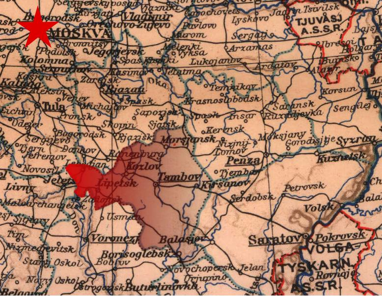 Map of that highlight the Tambov Rebellion, with the Gouvernement of Tambov marked Red. The Soviet Capital Moscow is marked by a Red Star. The Picture is my own work, created on the basis of a Map from the Nordisk Familjebok. The map is found here Image:Karta över de europeiska delarna av Sovjetunionen på 1920-talet.jpg Nasiruddin 09:00, 28 March 2008 (UTC)